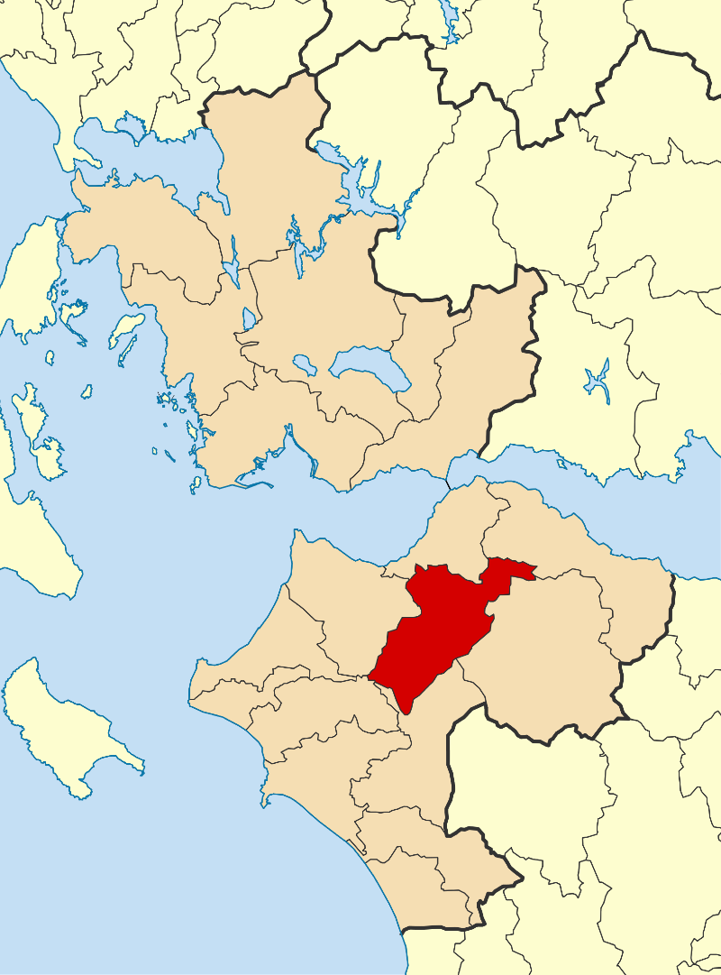 Locator map for Erymanthos municipality in Greek region Western Greece (2011)